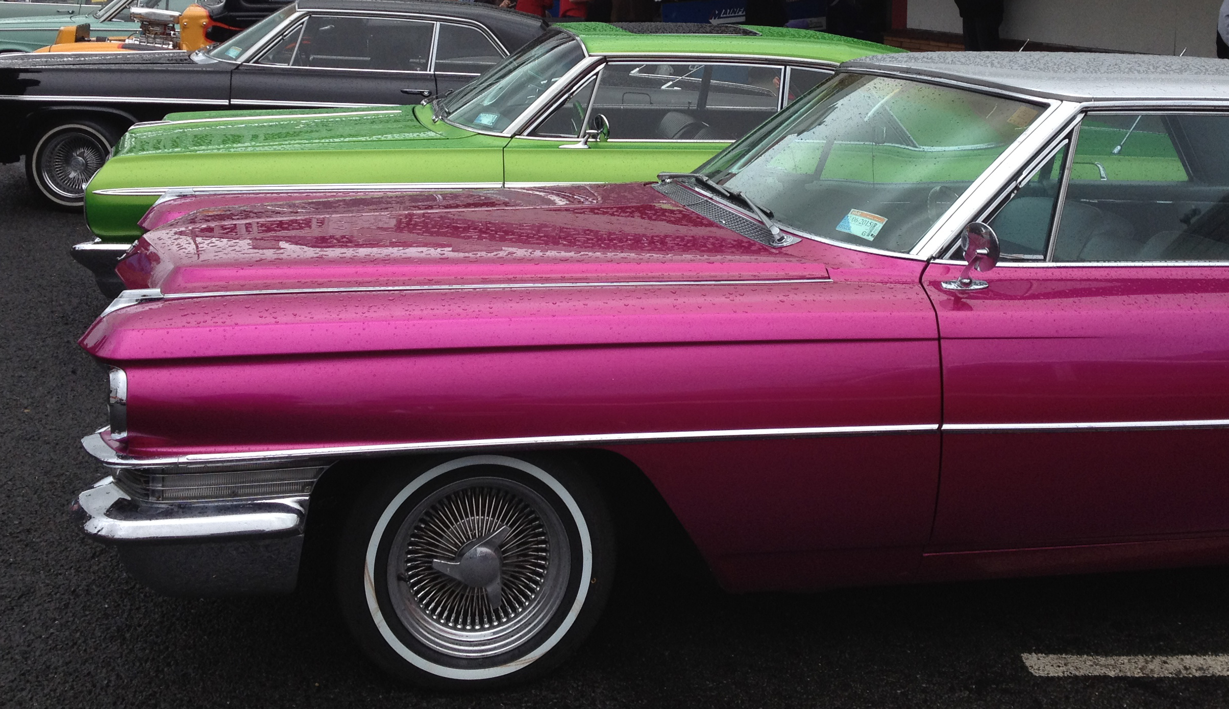 pink and green car